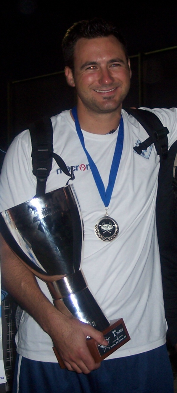 Cody Cillo holding the European Cup for baseball clubs won by Fortitudo Baseball Bologna at 2010 Final Four in Barcelona on 26 September 2010.